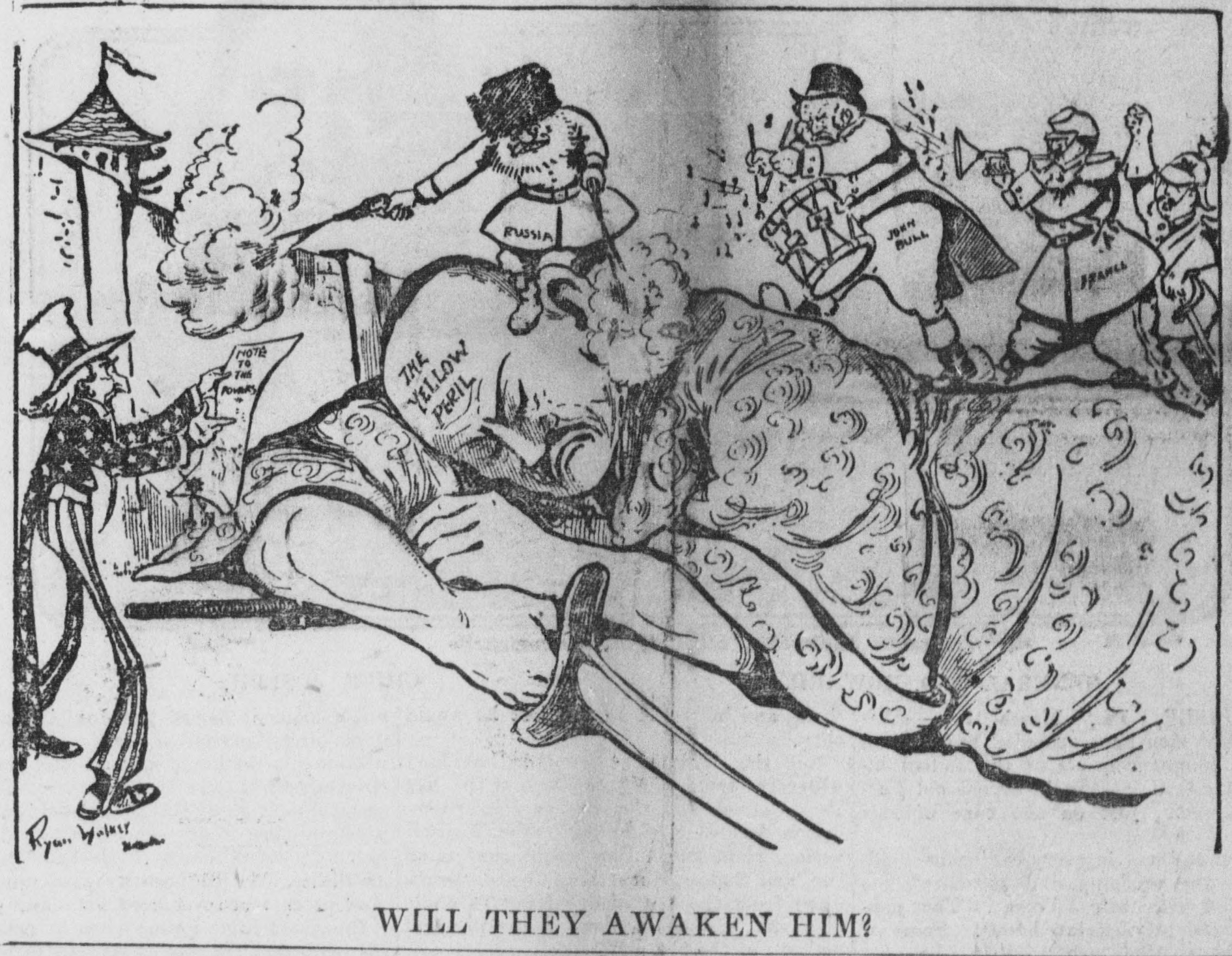 As Imperial Russia, the British Empire (personified as John Bull), the French Colonial Empire, and the German Empire climb all over the sleeping giant that is the Yellow Peril, an alarmed Uncle Sam reads out a "NOTE TO THE POWERS". Caption: "WILL THEY AWAKEN HIM?" ("him" = the Yellow Peril")